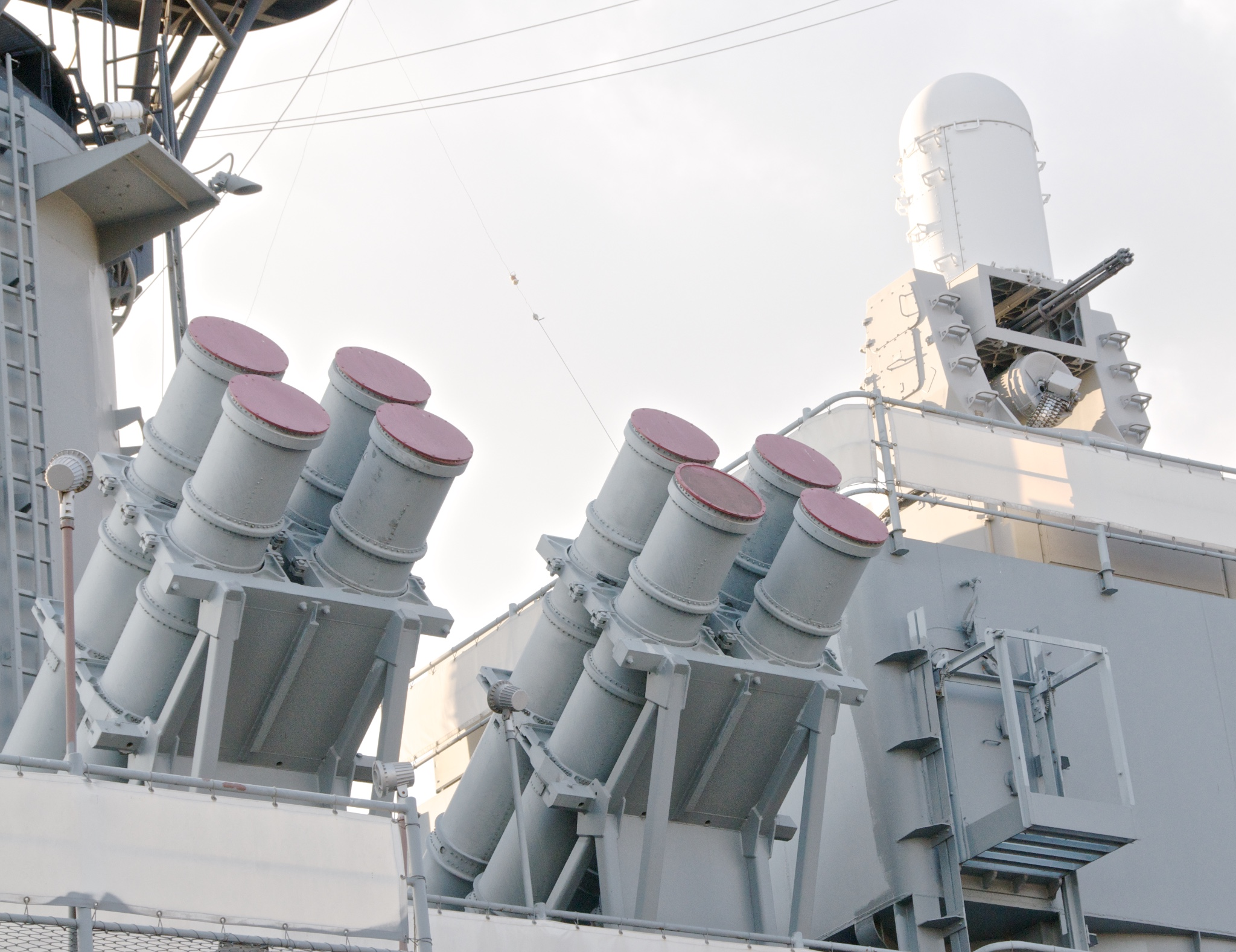 Modern weapons on the Battleship New Jersey (BB-62). Each of the eight tubes on the left would hold a RGM-84 Harpoon Anti-Ship Missile, which had a range of up to 85 nautical miles. The weapon in the upper right is one of four Phalanx Close-In Weapons Systems on the U.S.S. New Jersey. These were used to defend against missiles and aircraft that were within a mile of the ship. The white dome contained radars and controls. The gun is a 20mm Gatling gun that would fire 3000 rounds/minute. Underneath the barrels is the magazine and feed system for ammunition.